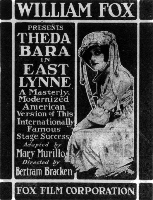 Advertisement for the American drama film East Lynne (1916) with Theda Bara, on page 22 of the June 16, 1916 Variety.